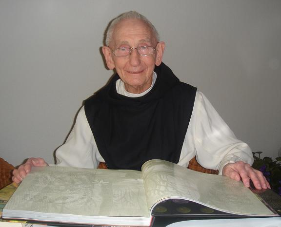 bernard de give